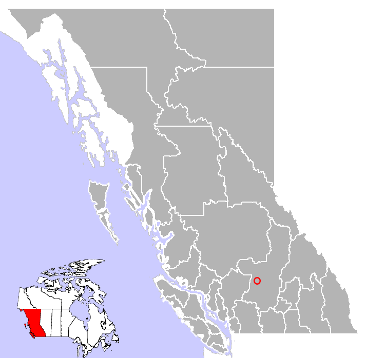 Location of Cache Creek